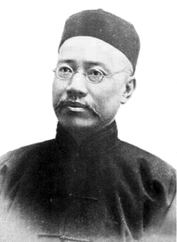 Photo of Ngieng Hok